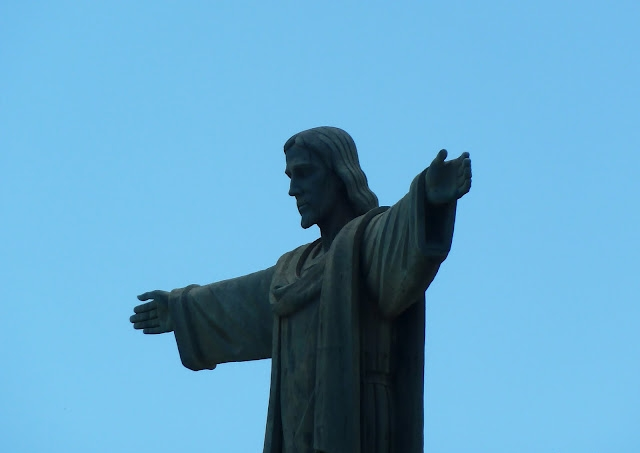 This image shows Christ the Redeemer statue on the top of the hill Pico Isabel de Torres in Puerto Plata, Dominican Republic